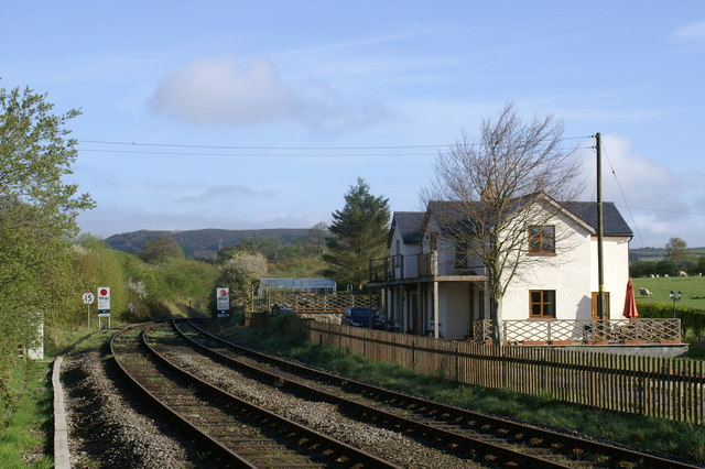 Station Guest House. This Station House (1860-1968) is now a B&B. Fortunately trains between Machynlleth and Newtown have to slow to 15mph here and do not run at night.